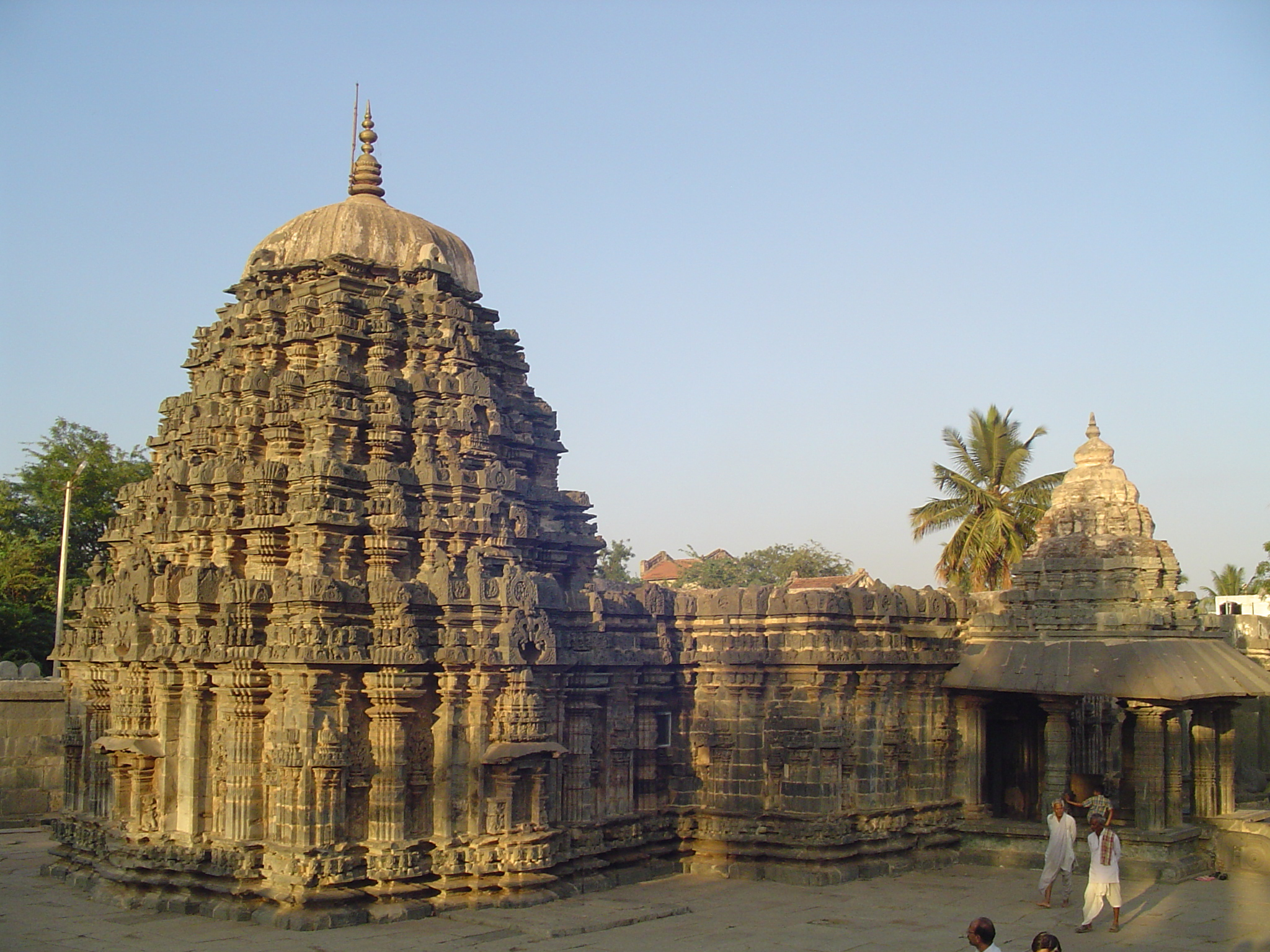 Amritesvara temple, annigeri